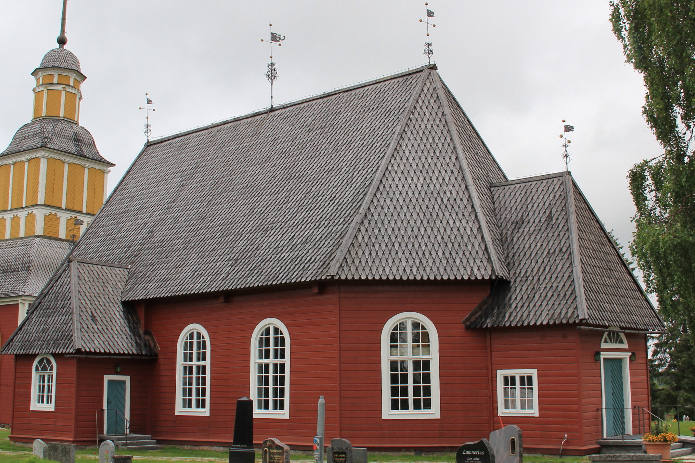 Hietaniemi church, Hedenäset, Övertorneå Municipality, Sweden. - Church and bell tower seen from northwest.